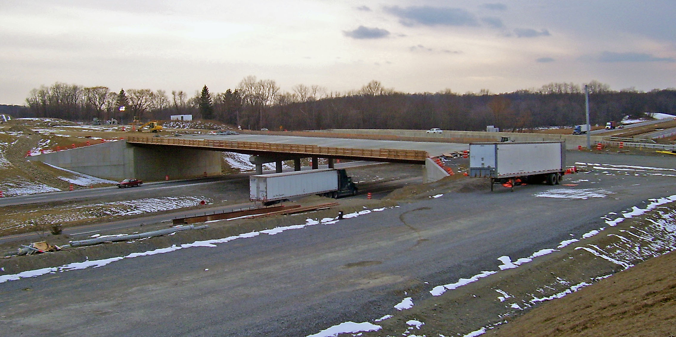 New interchange on I-84 at Drury Lane (soon to be NY 747. Photographed by Daniel Case 2007-02-12